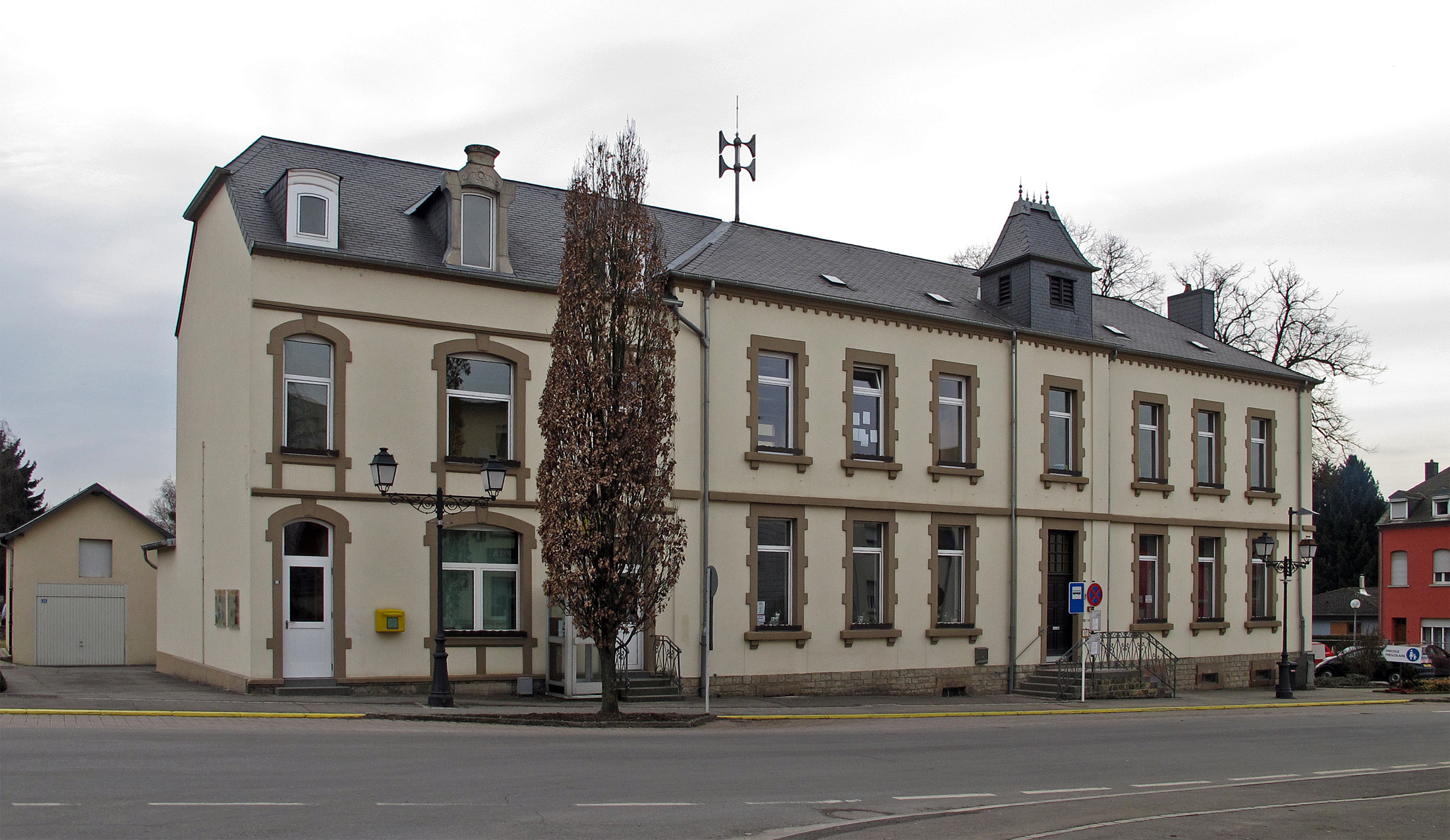 Post and school of Kleinbettingen, Luxembourg